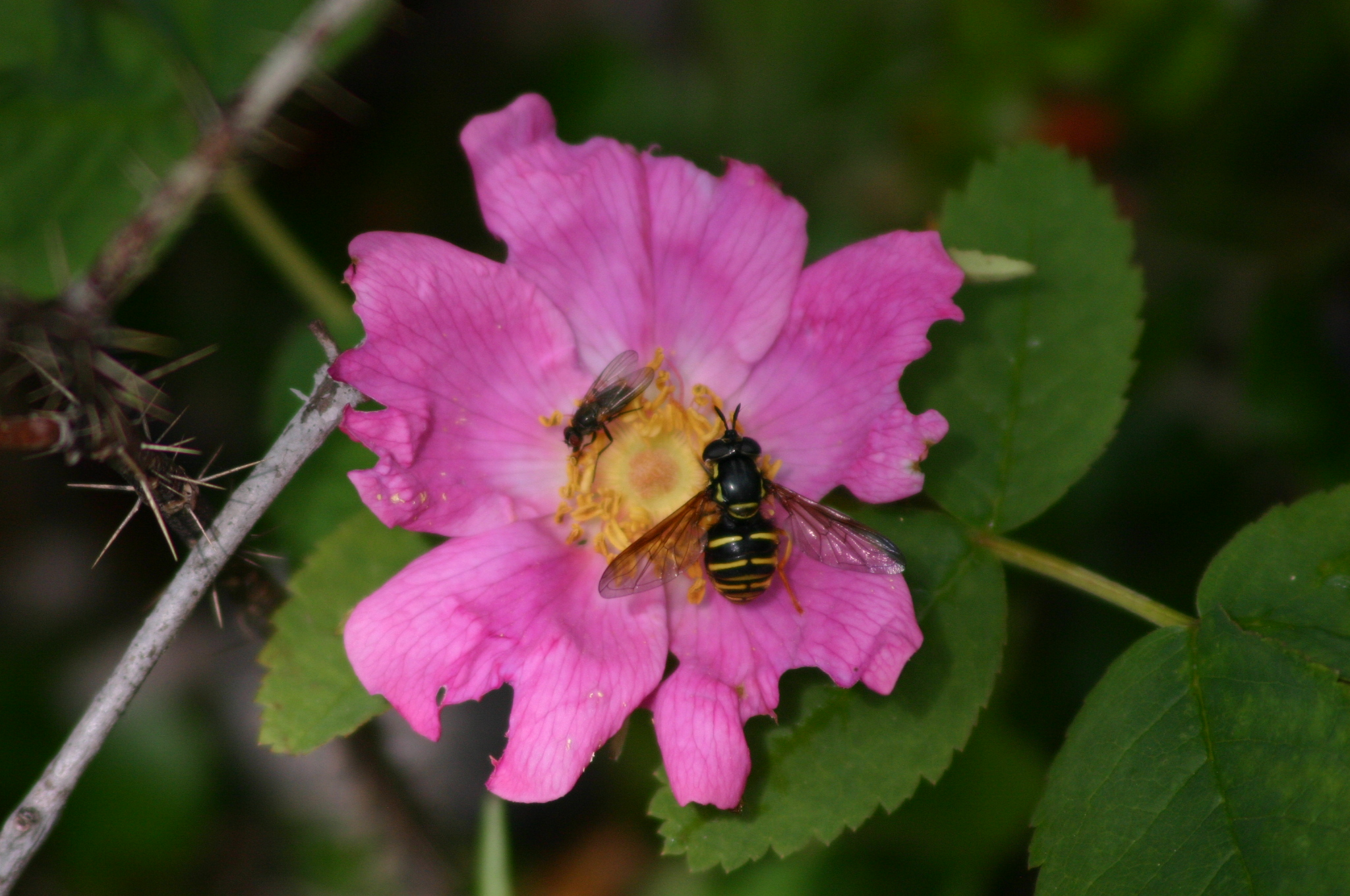 This photo shows a hoverfly (Diptera:Syrphidae) and another insect competing for nectar on the same flower. At Emerald Lake, Yoho National Park, British Columbia, Canada.